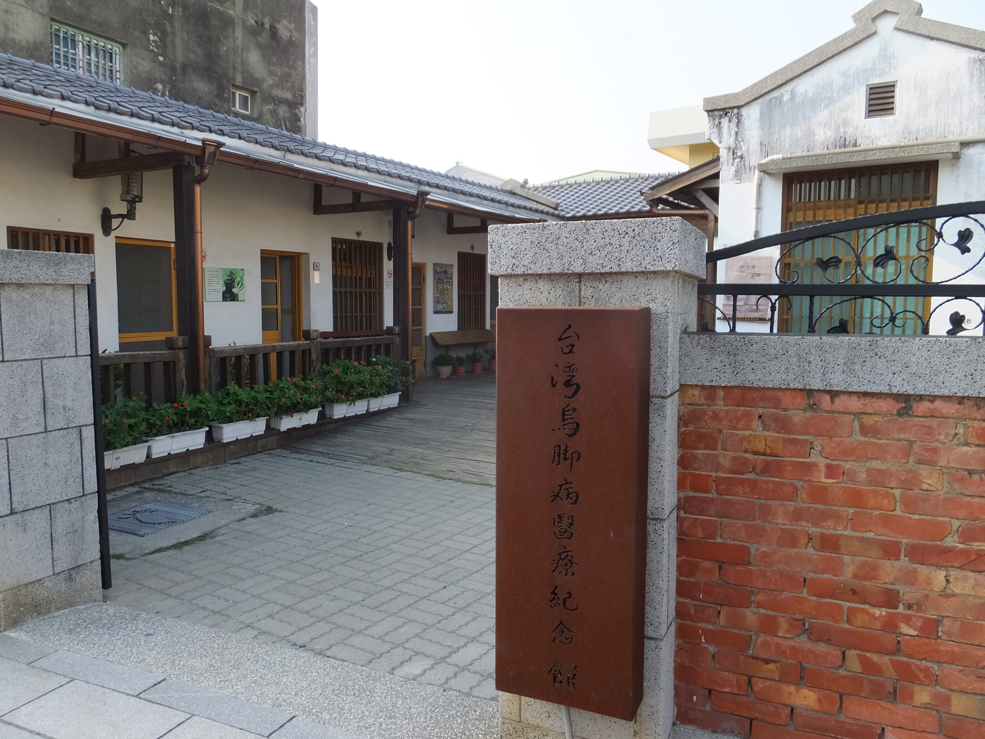 台灣烏腳病醫療紀念館 Taiwan Black-foot Disease Socio-Medical Service Memorial House